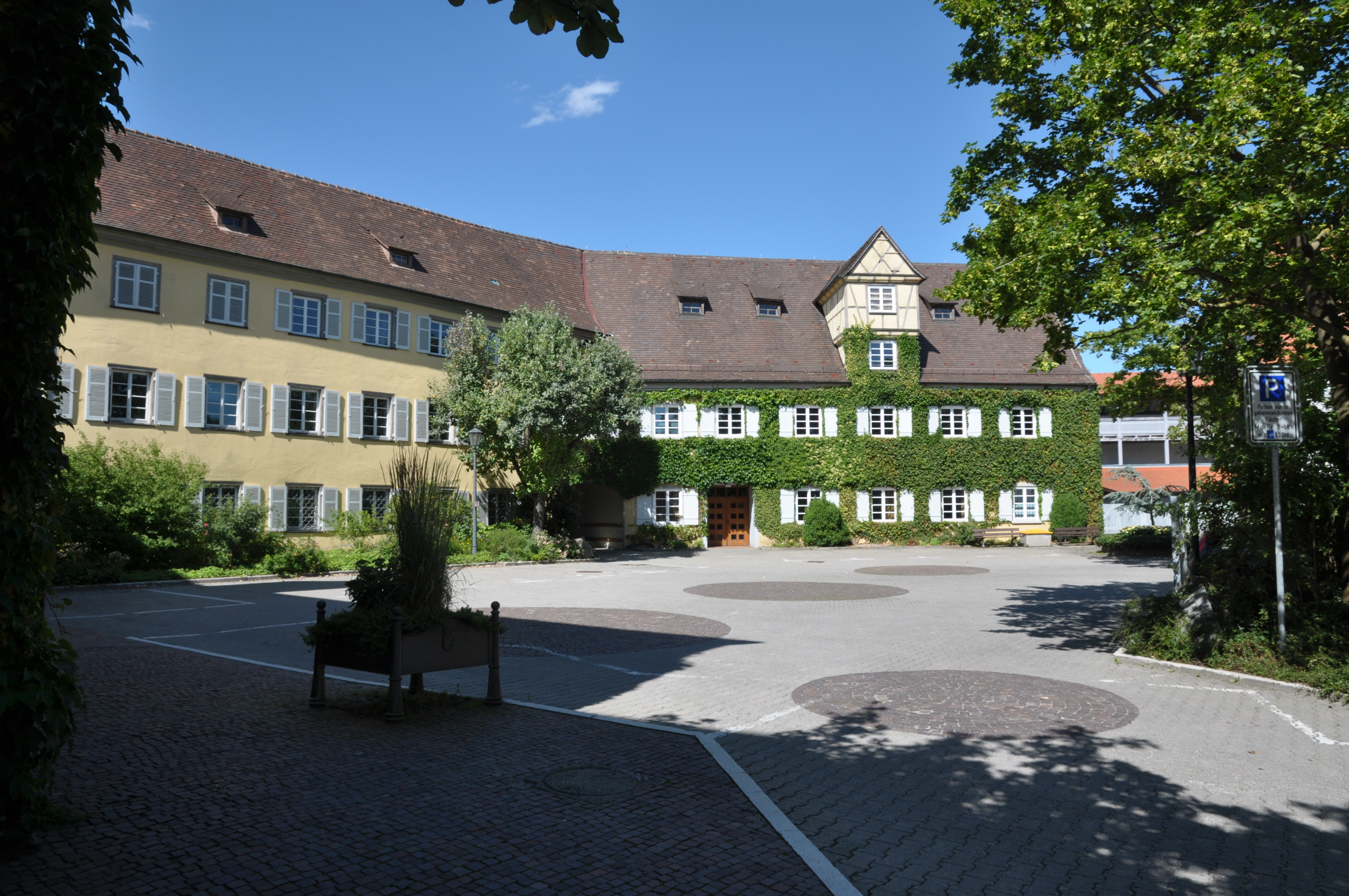 Town hall Bad Saulgau